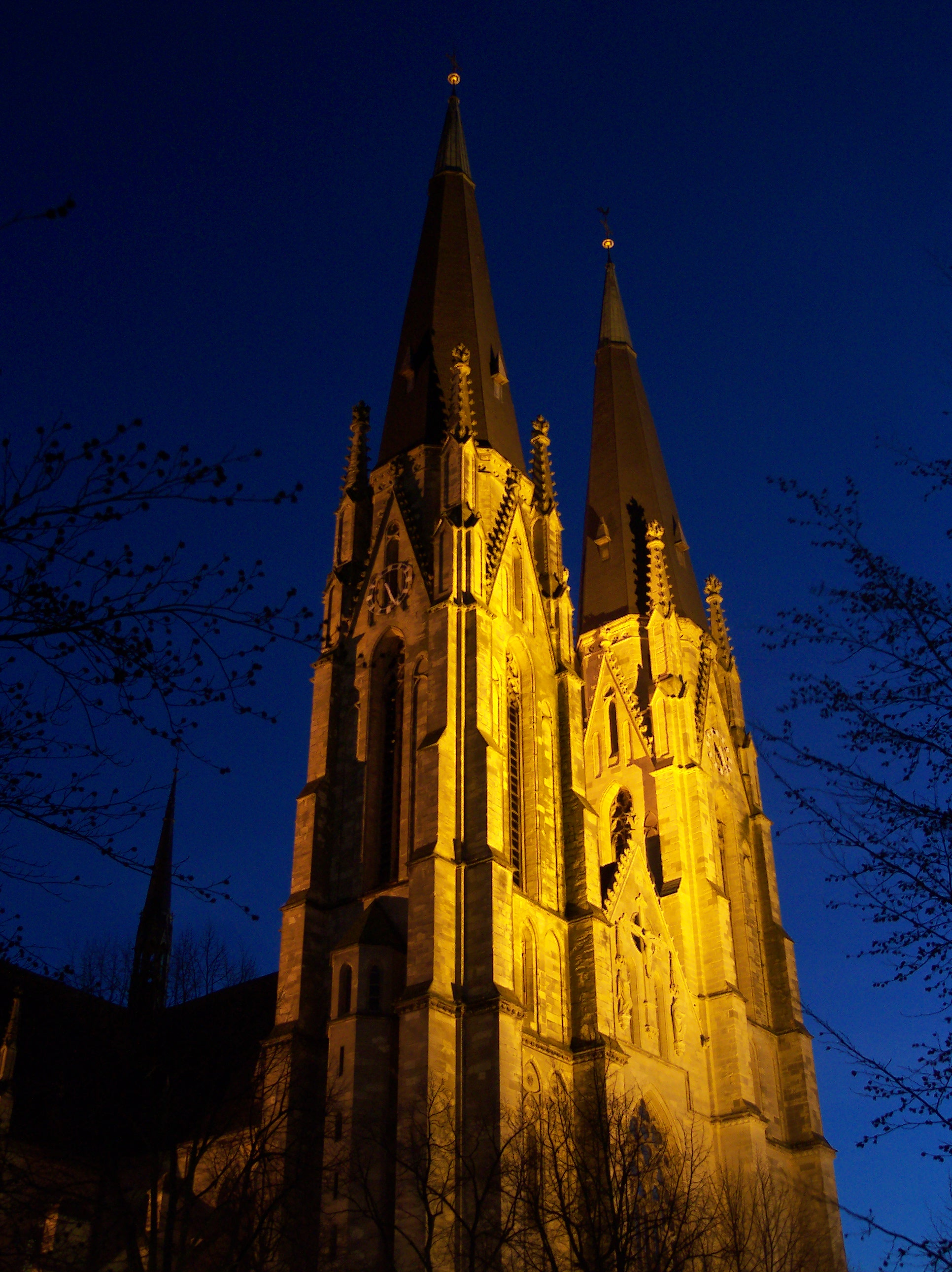 View from north to the Saint Liudger Priory Church in Billerbeck (North Rhine-Westphalia, Germany) in the evening